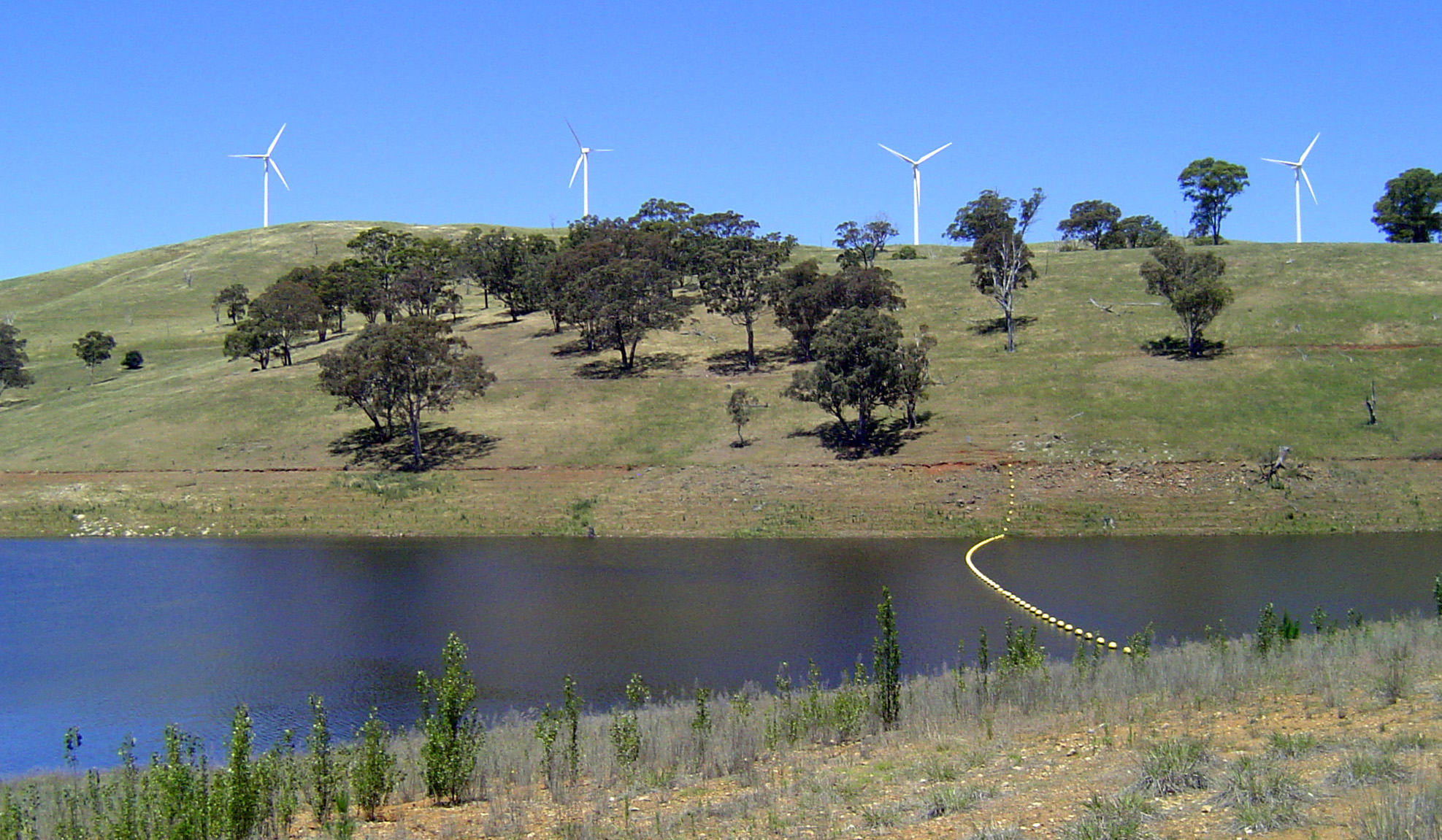 Photo of the Blayney Wind Farm, NSW Australia.